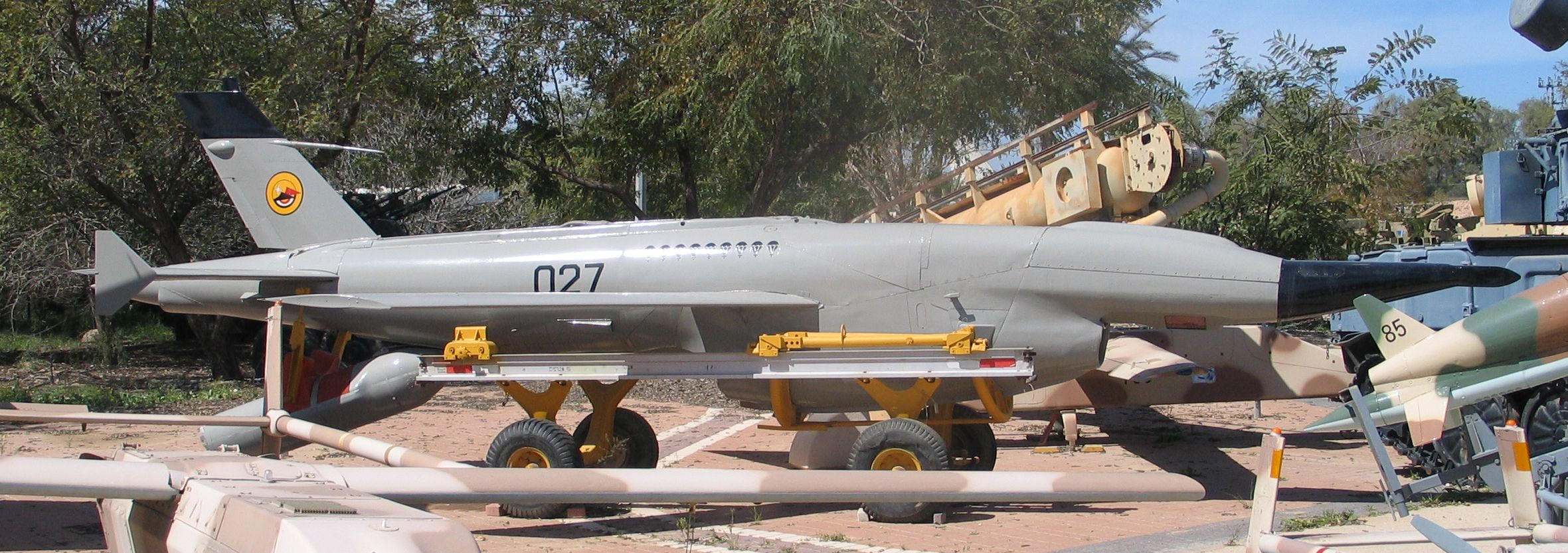 Description: Teledyne Ryan Firebee UAV (reconnaissance variant, IDF designation Mabat) at Muzeyon Heyl ha-Avir, Hatzerim airbase, Israel. 2006. Source: Photo by me, User:Bukvoed.